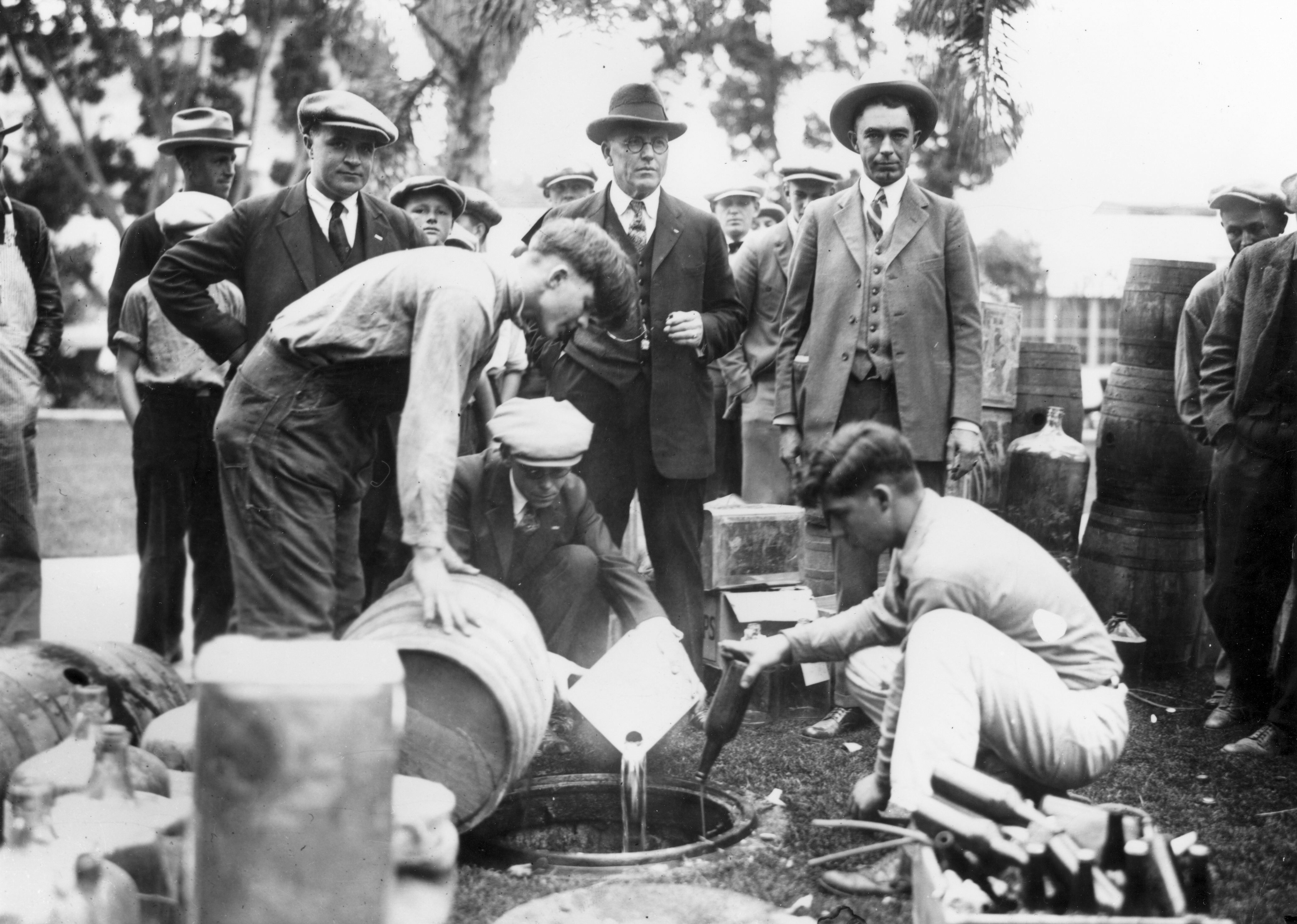 The Orange County (California) Sheriff is shown dumping bootleg booze. Those depicted in the photo include J. Elliott, Joe Ryan, Sheriff Sam Jernigan, and Undersheriff Ed McClellan. There are no known copyright restrictions on this image. All future uses of this photo should include the courtesy line, "Photo courtesy Orange County Archives."